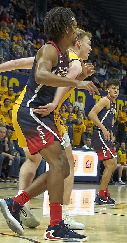 University of California Golden Bears hosted University of Arizona Wildcats, Pac-12, Mens Basketball, Haas Pavilion, Berkeley, CA